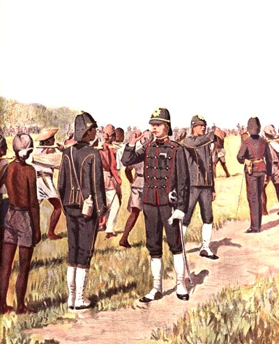 Officieren van gezondheid